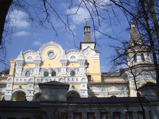 Moscow Patriarch's residence in Peredelkino